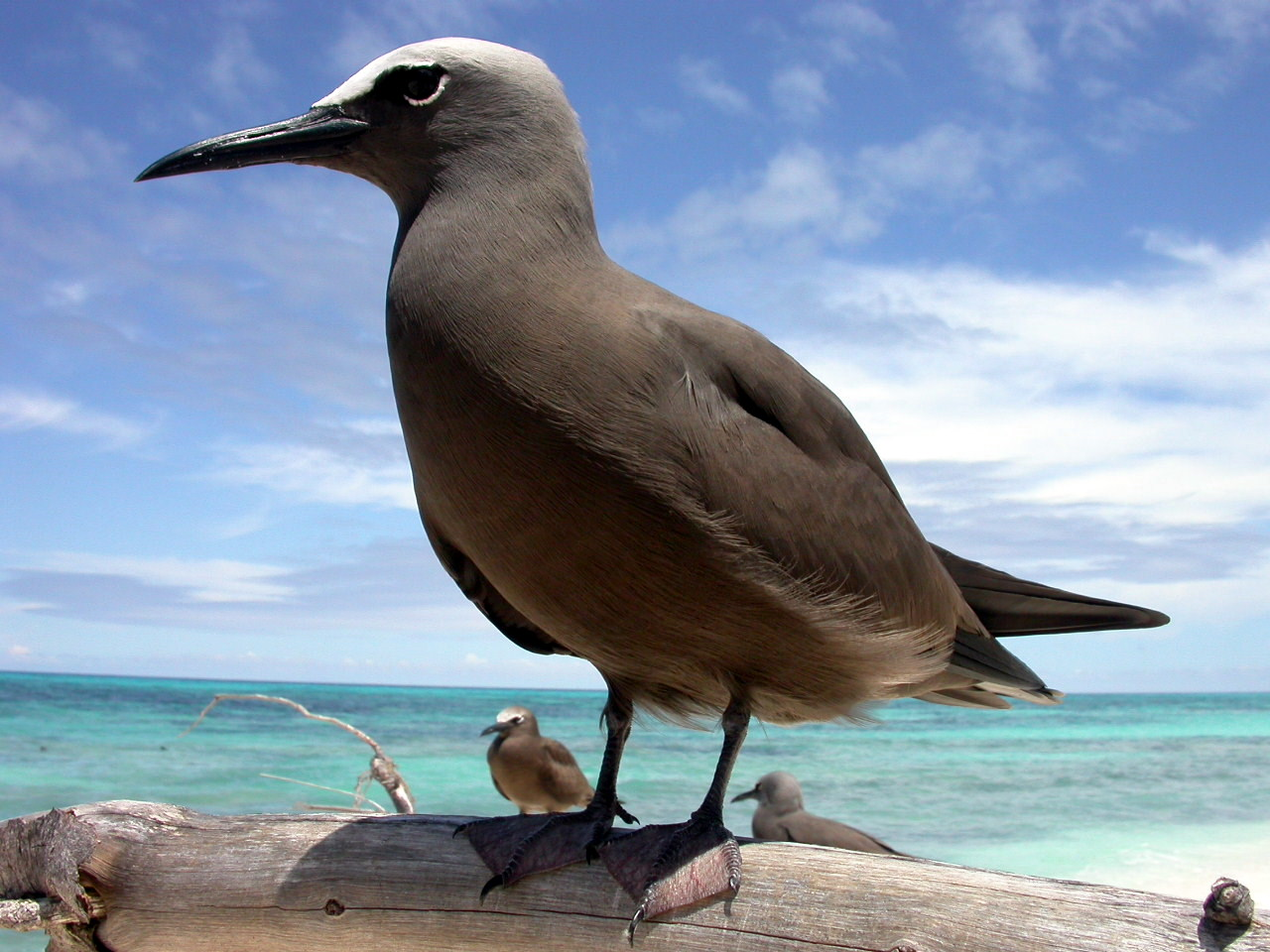 A noddy on Bird Island, Seychelles.